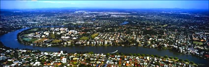 St Lucia, QLD 4067